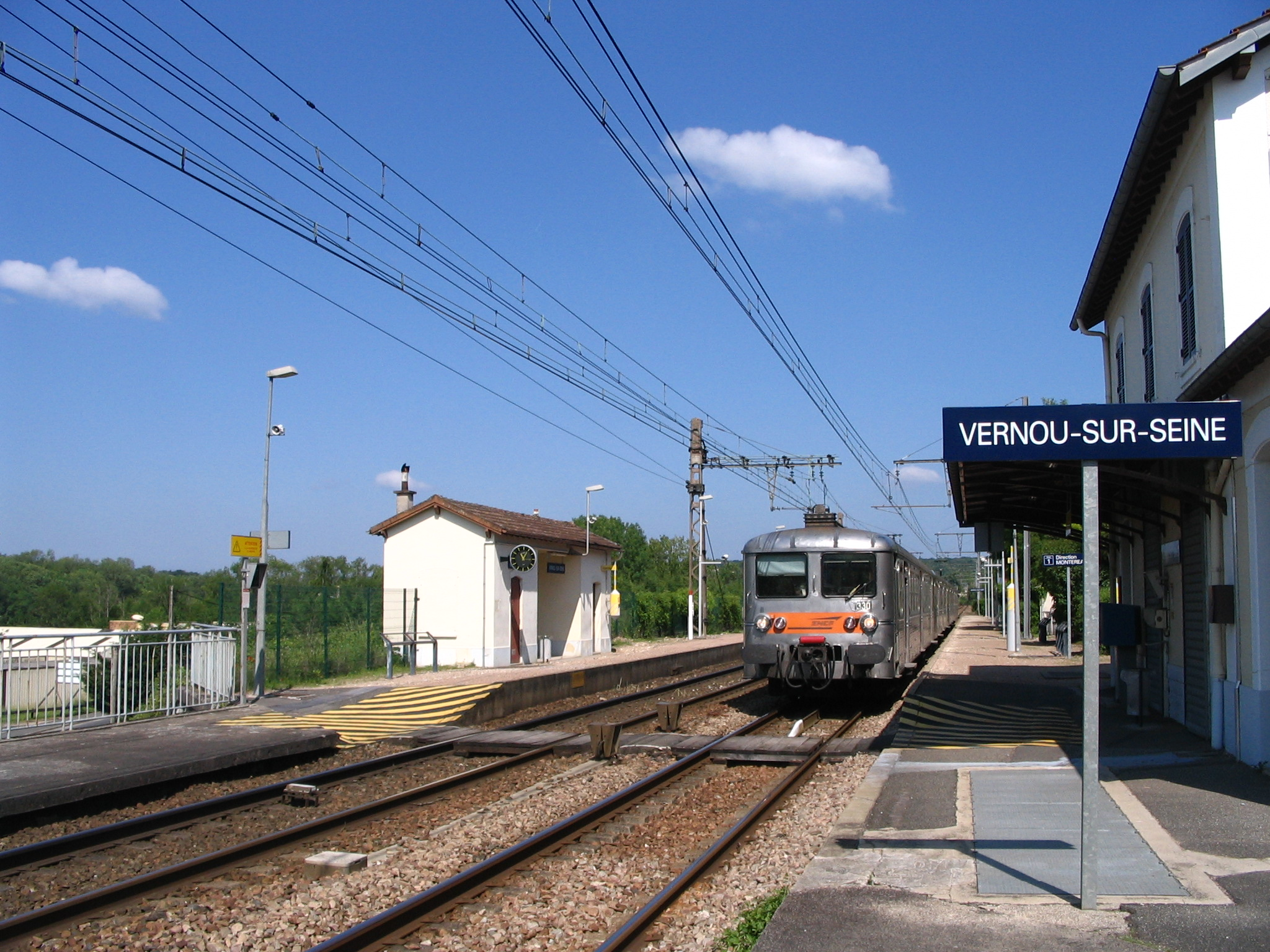 The Vernou-sur-Seine train station, in Vernou-la-Celle-sur-Seine, Seine-et-Marne, France.